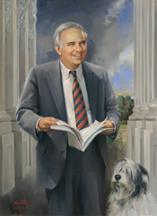 Les Aspin's congressional portrait